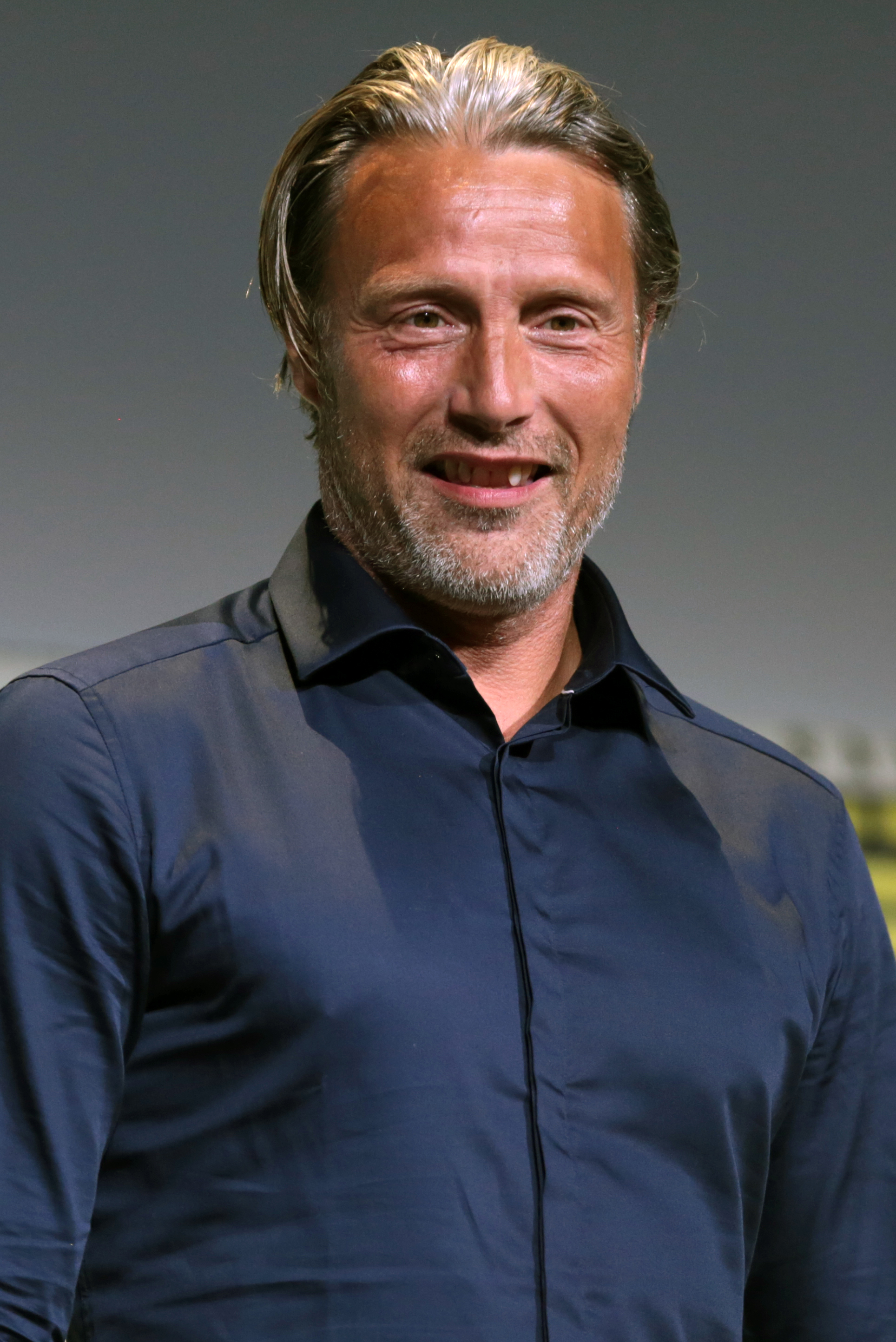 Mads Mikkelsen speaking at the 2016 San Diego Comic-Con International in San Diego, California.